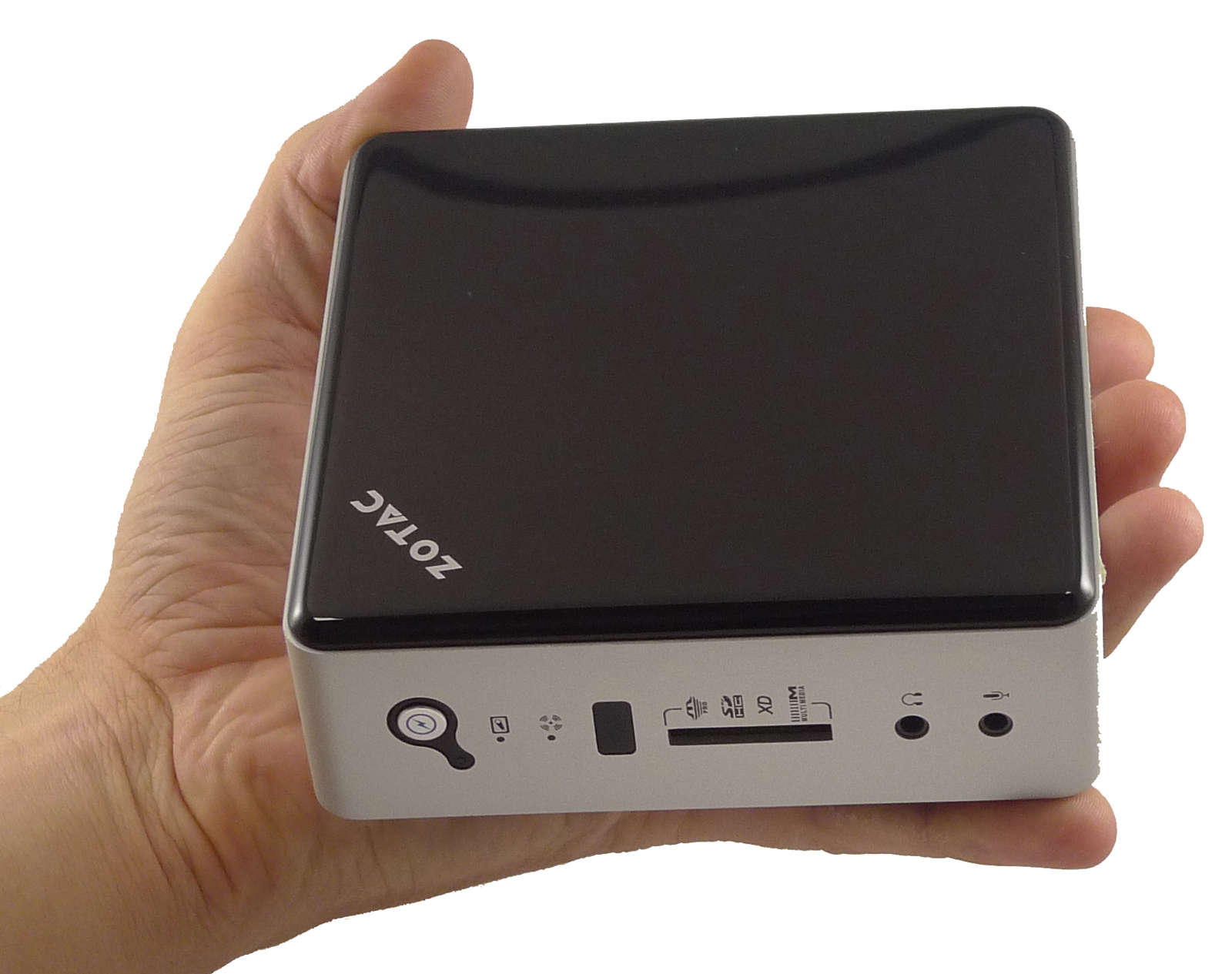 The ZOTAC ZBOX mini-PC is small enough to be held in the palm of your hand.